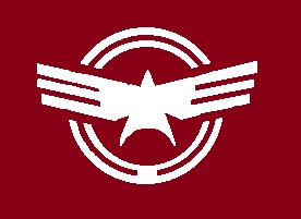 Flag of Ena, Gifu